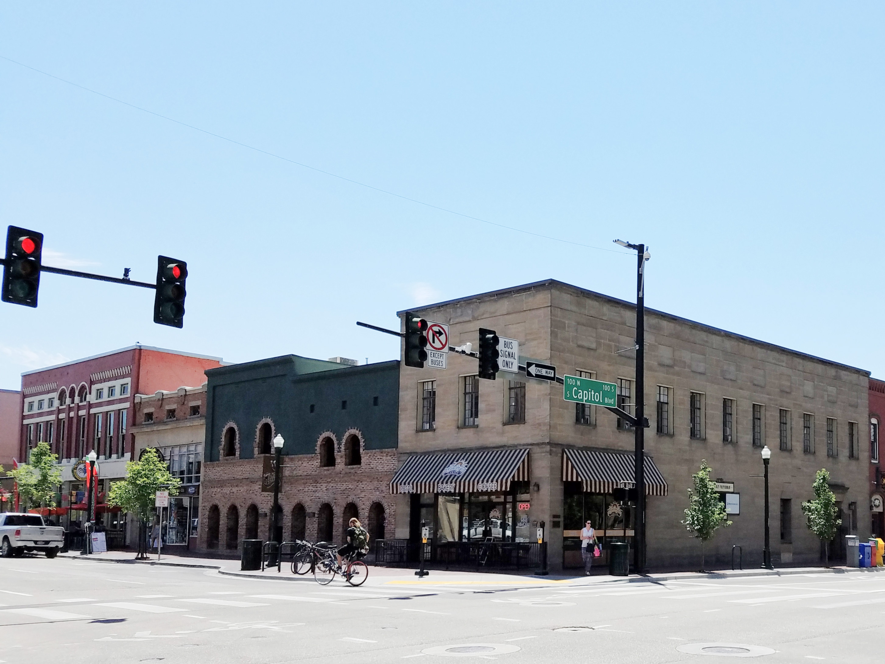 The Perrault building (1879) in Boise, Idaho, is part of the Boise Historic District.